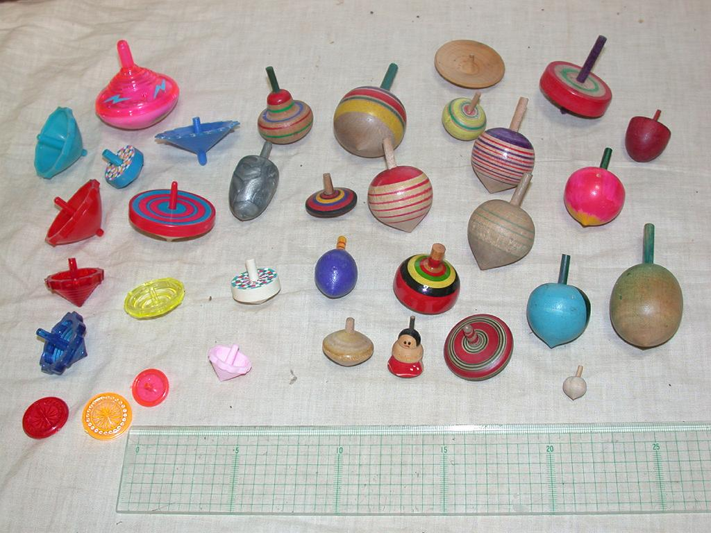 Japanese Spinning Tops;Hinerigoma from own collection Author;Keisotyo